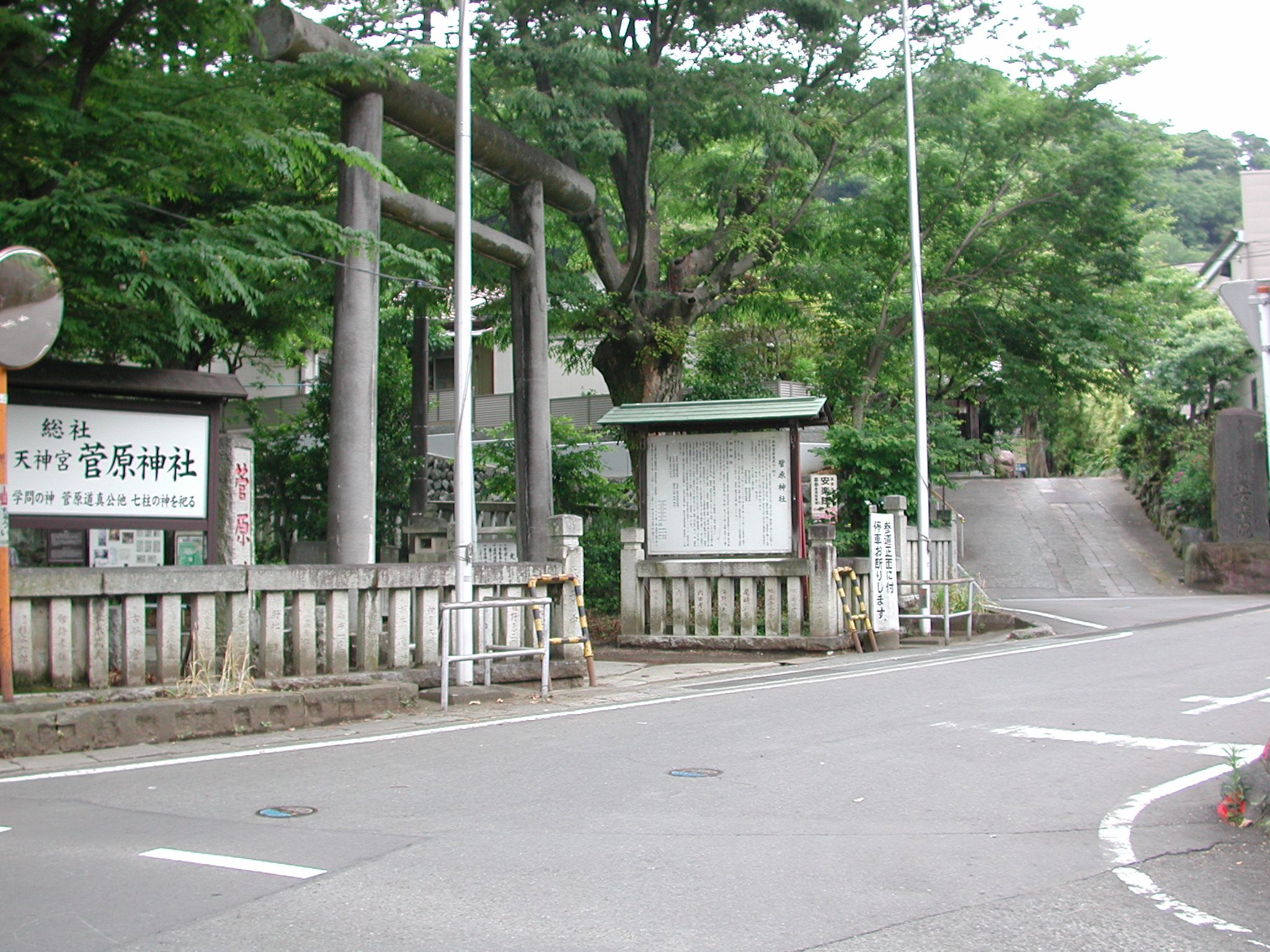 Sugawara Jinja and Anrakuin (Kouzu, Odawara-shi, Kanagawa)